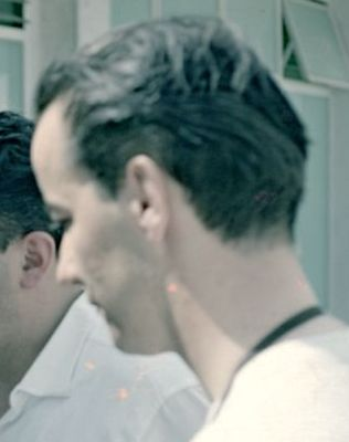 Drivers von Trips (out of focus on the left), Luigi Musso (centre) and Harry Schell (right) at the 1957 Argentine GP. Photo by Carlos Alberto Navarro.